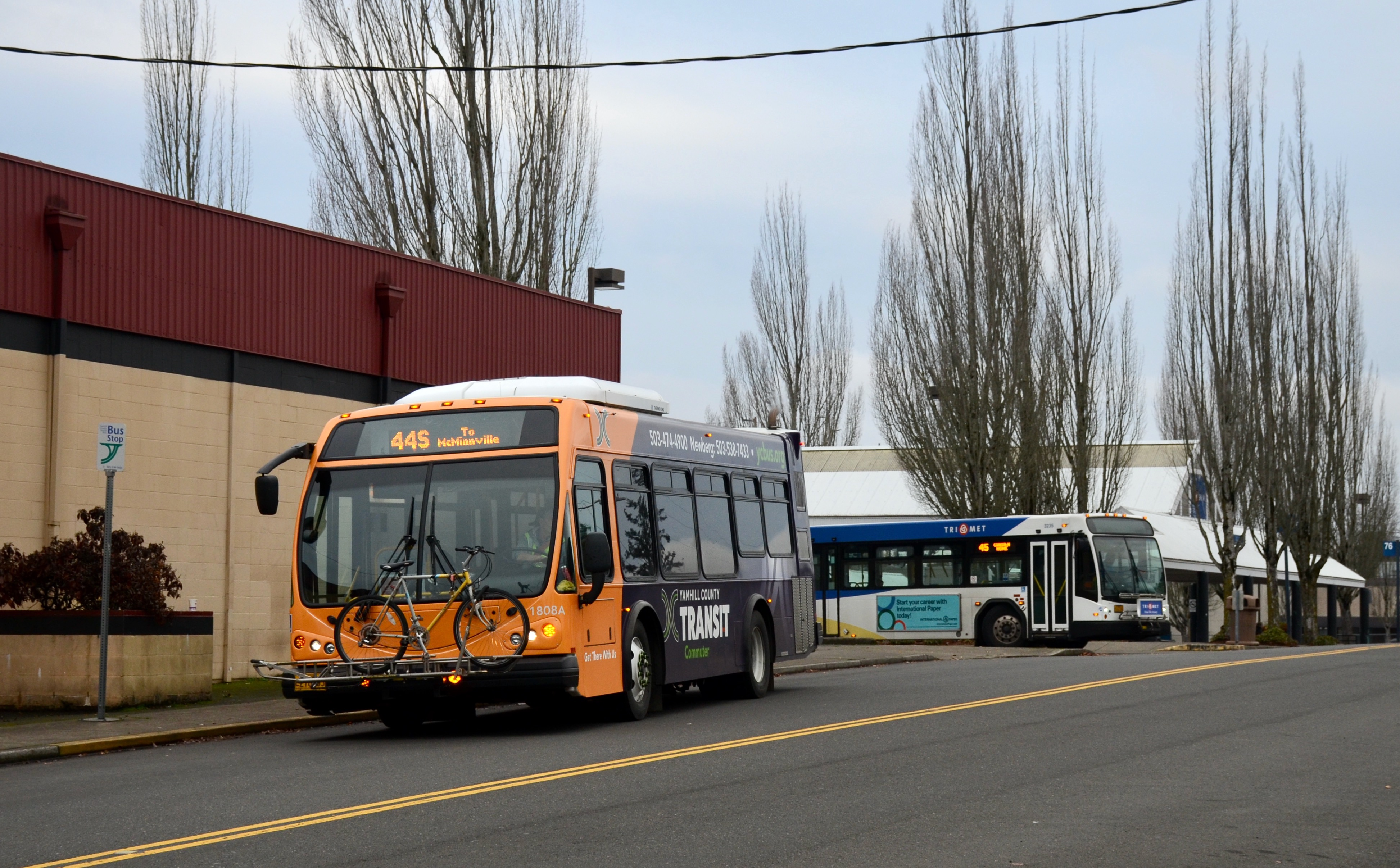 Yamhill County Transit bus 1808, a 2018 ElDorado National "E-Z Rider II BRT" mid-size bus, on Commercial Street, starting to pull away from TriMet's Tigard Transit Center. In the background, a TriMet bus is starting to leave the TC's off-street area, to pull out onto Commercial Street and begin a trip on route 45. Bus 1808 is in service on YCT route 44 between Tigard and McMinnville. The "S" showing on its destination sign indicates a southbound trip, and is not part of the route number (and the same vehicle was displaying "44N" when it arrived, as it was ending a northbound trip).